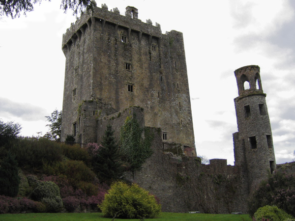 Blarney Castle, County Cork, Republic of Ireland.